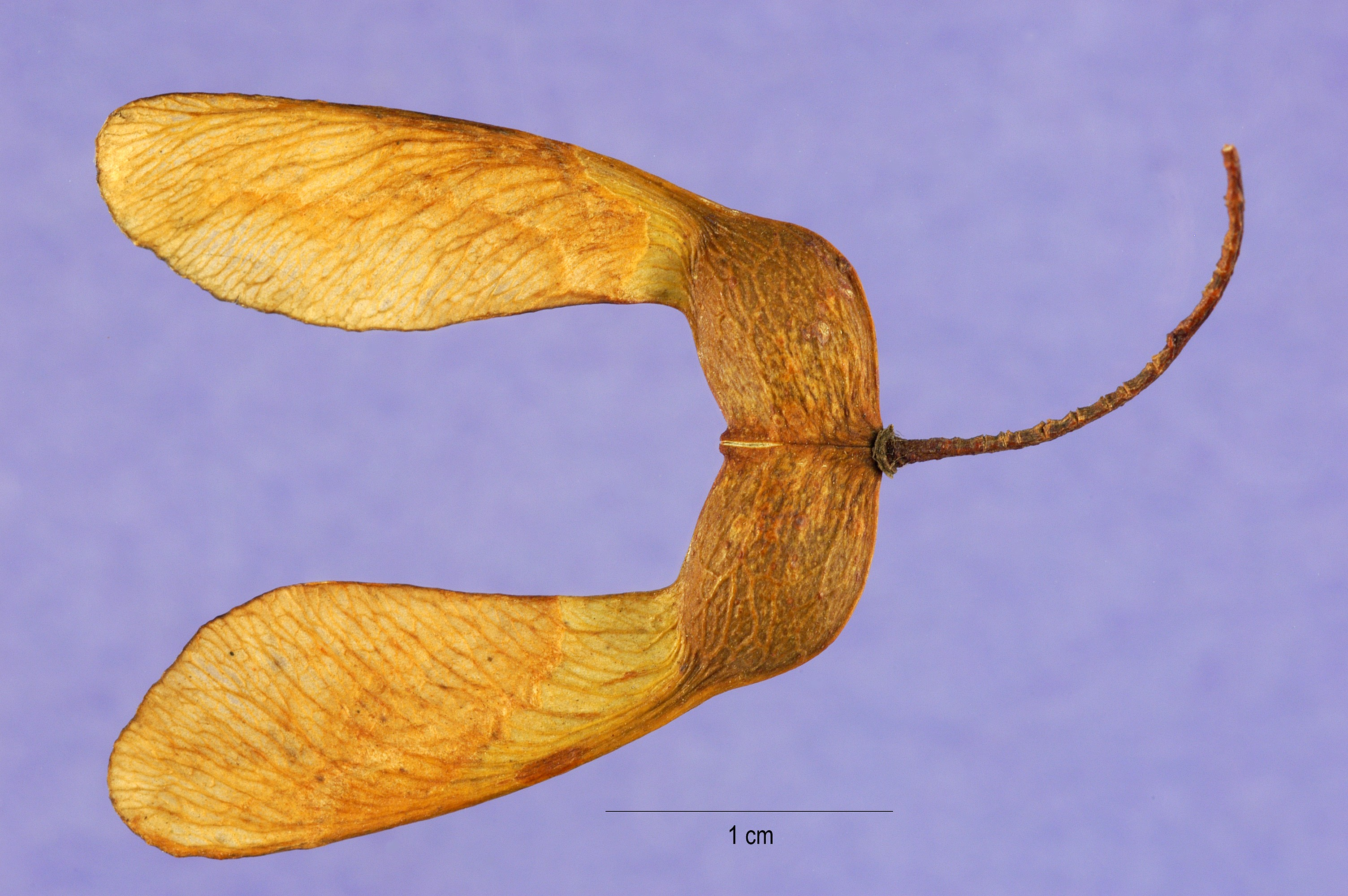 Sugar Maple. Drawing.